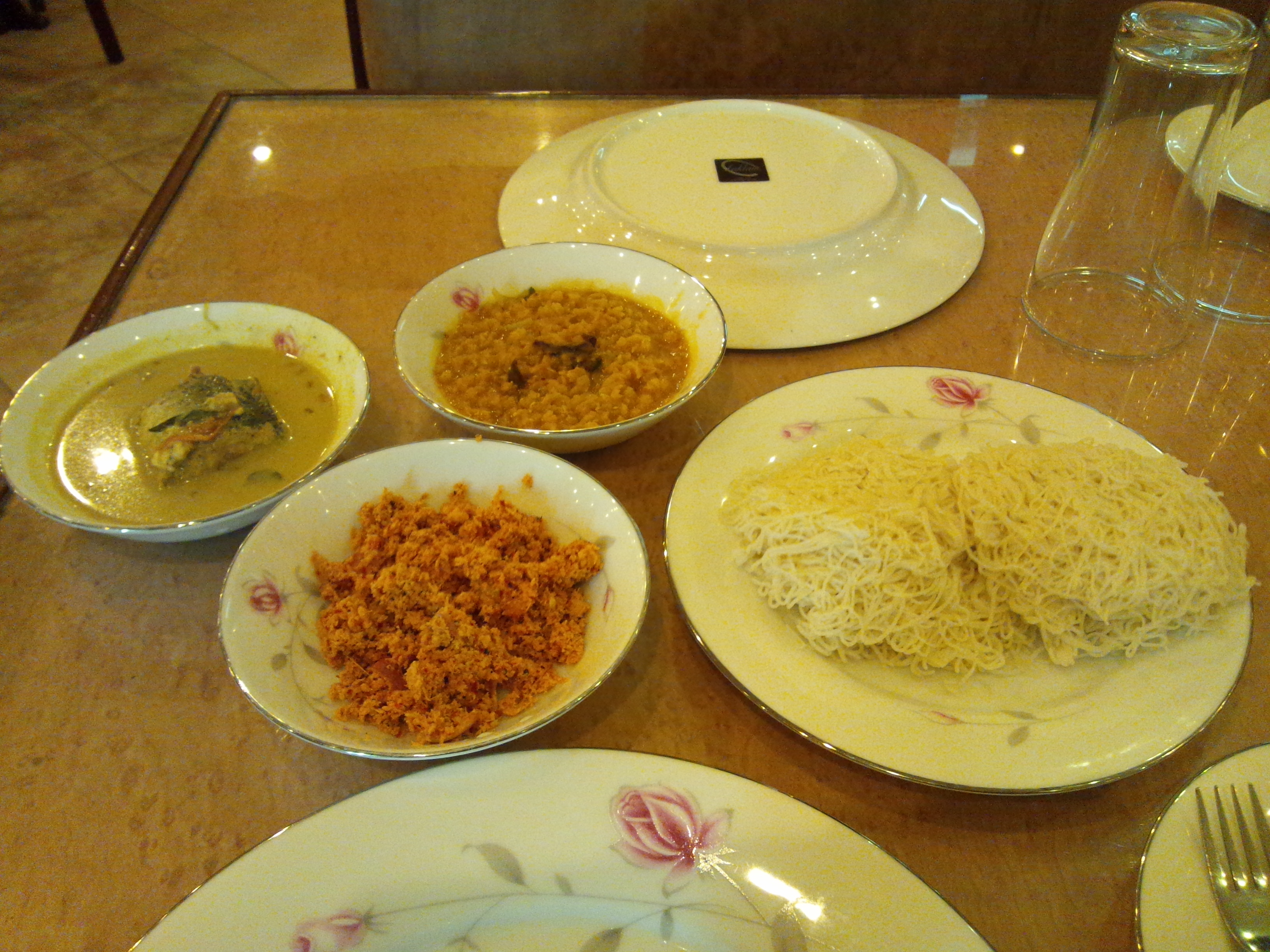 Sri Lankan breakfast by String hooppers (Idiyappam) in Devon Food Court, Kandy.